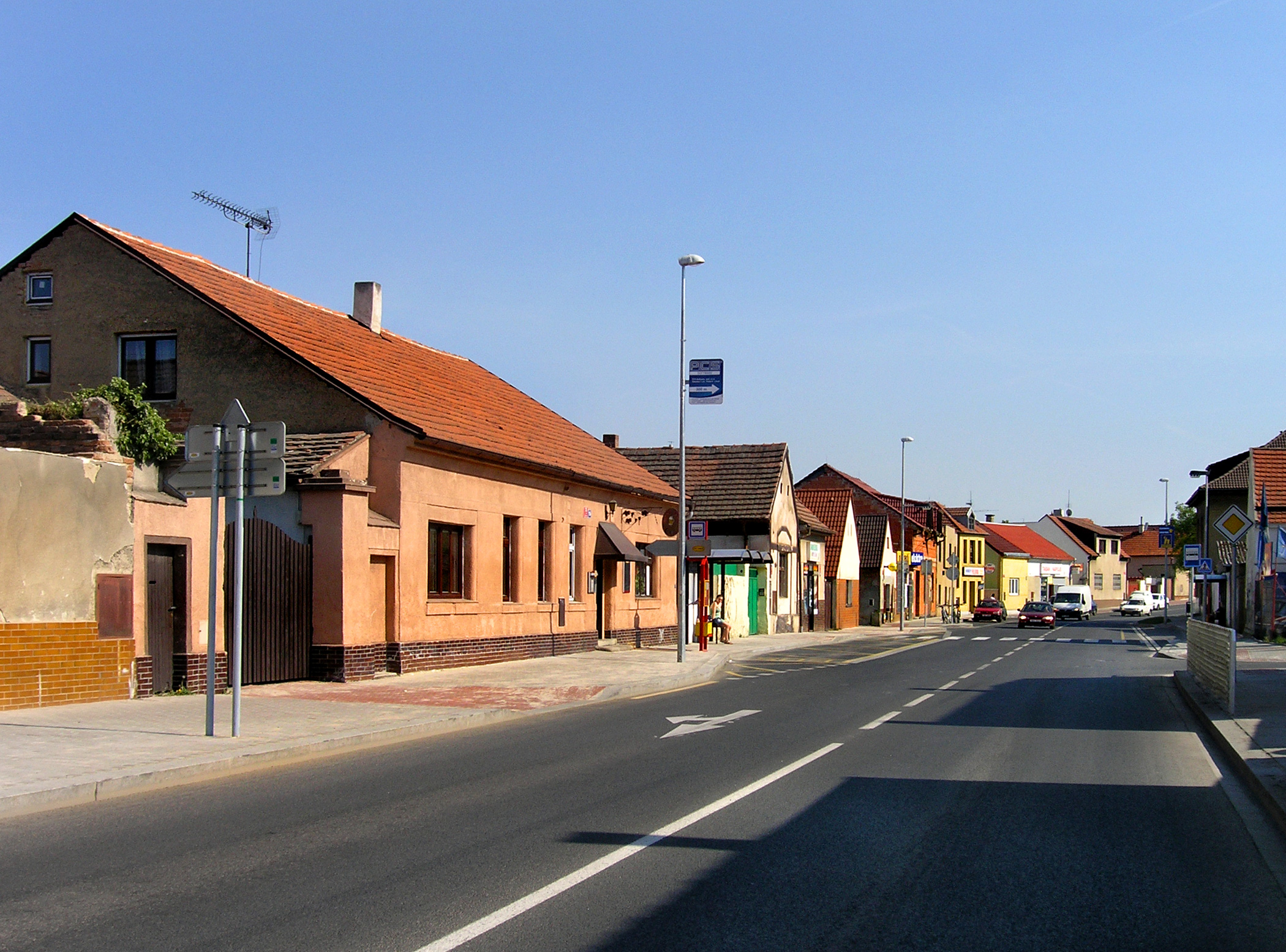 Prague-Libuš, Libušská street.